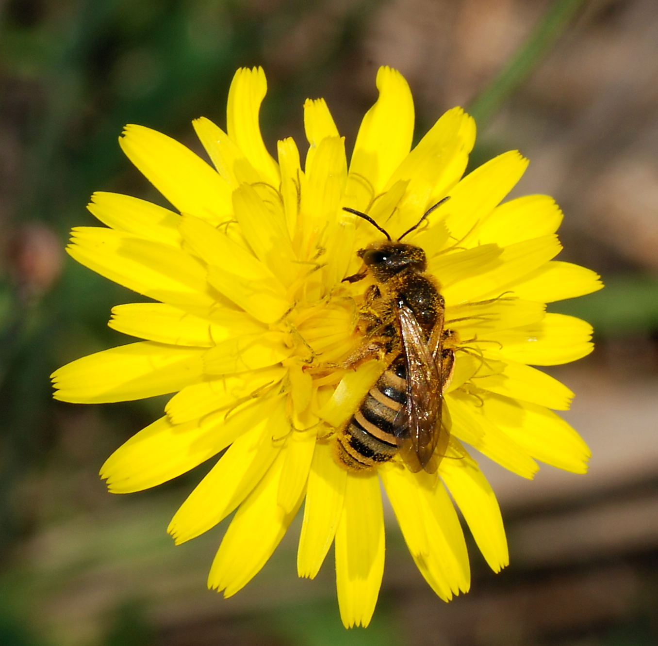 Solitary bee of the Halictidae family (Halictus scabiose)